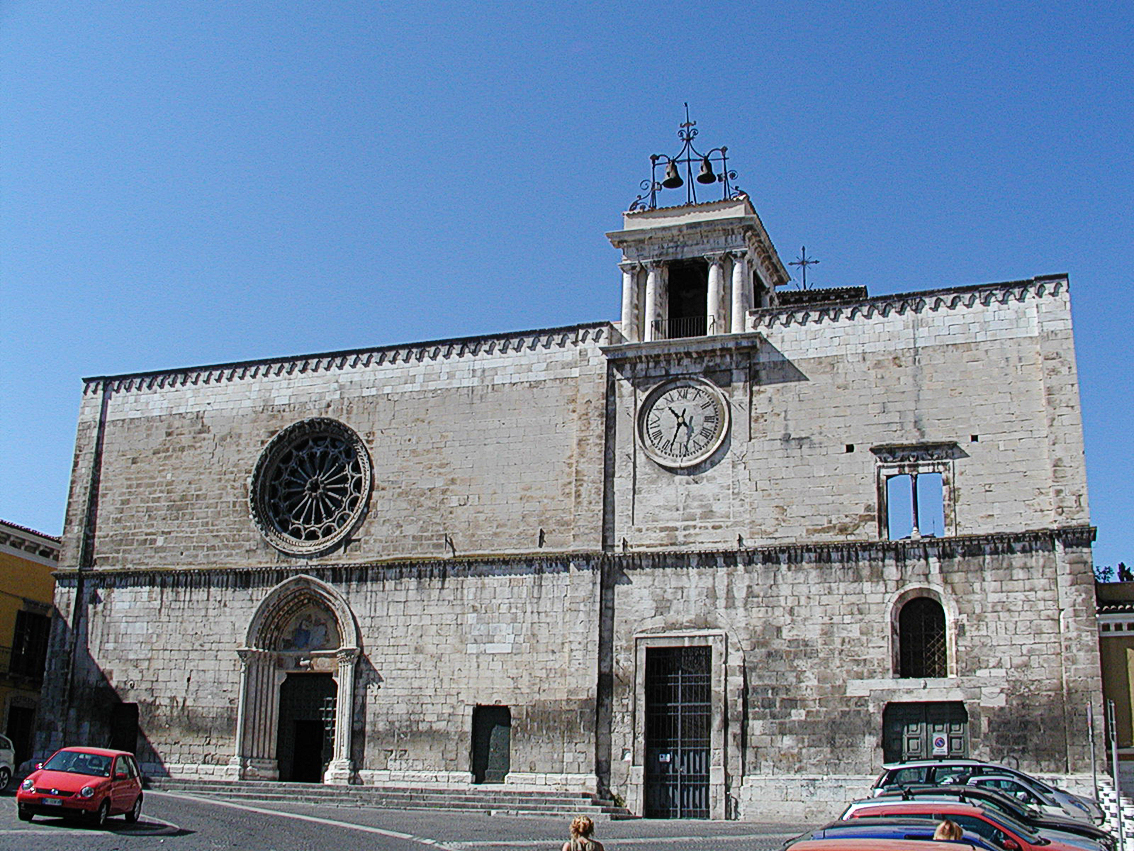 Sulmona, facade of S. Maria della Tomba Church.